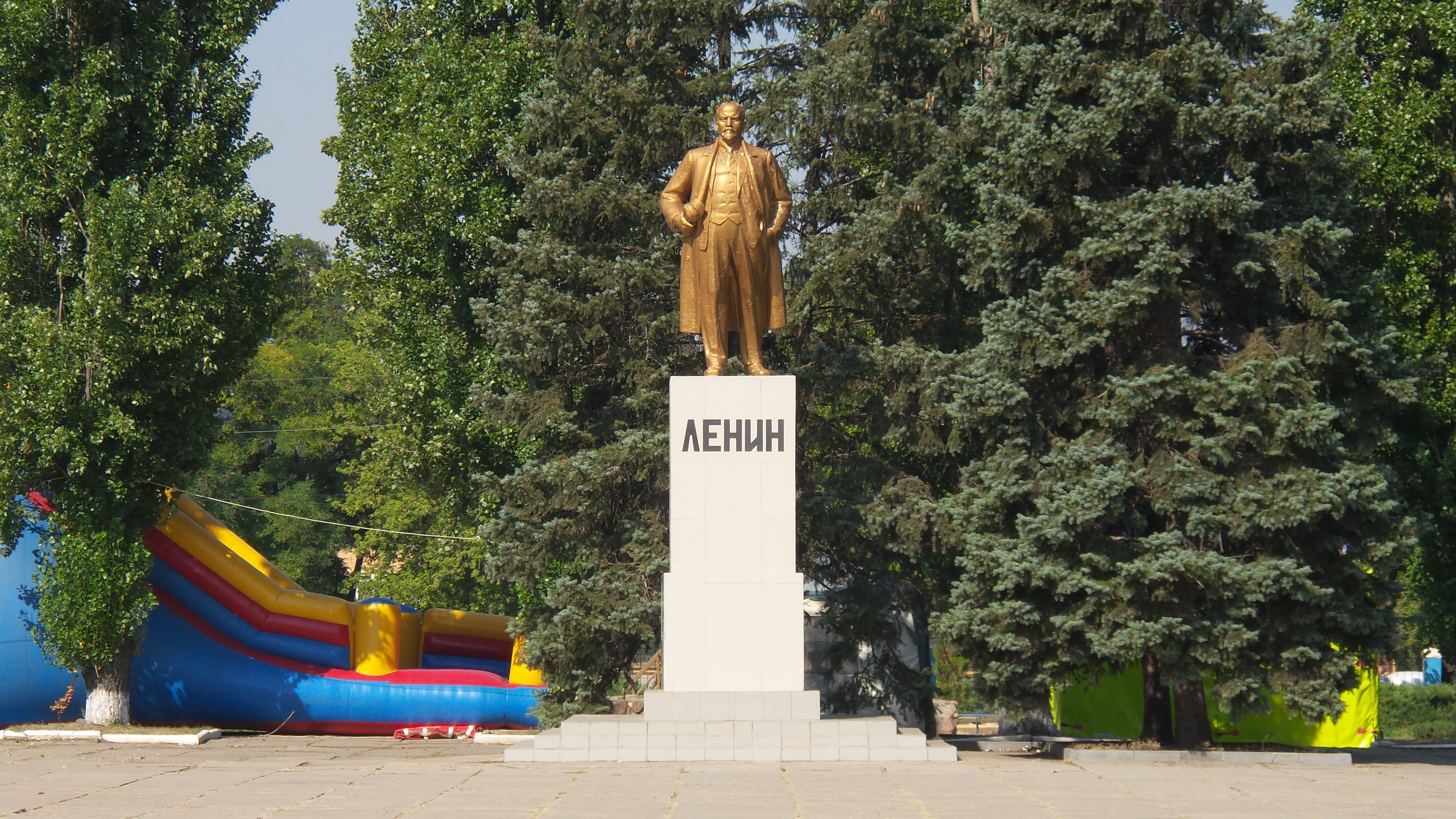 Kurakhove, Maryinskyi district, Donetsk region.